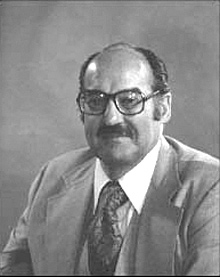 Photograph of Joseph Smagorinsky of unknown date.